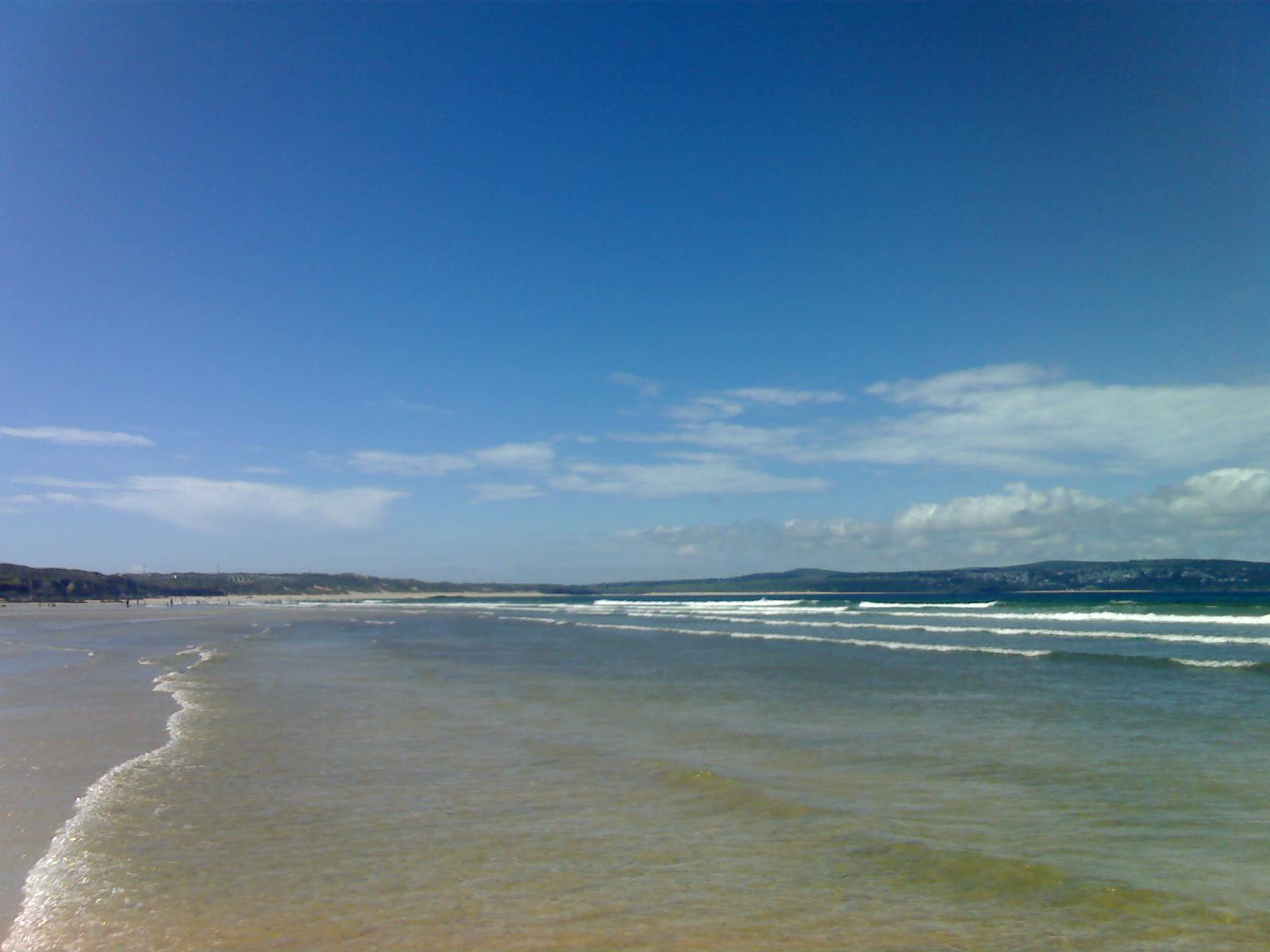 View from Godrevy end of Hayle Towans toward Hayle Estuary, with Carbis Bay and St. Ives in far background.